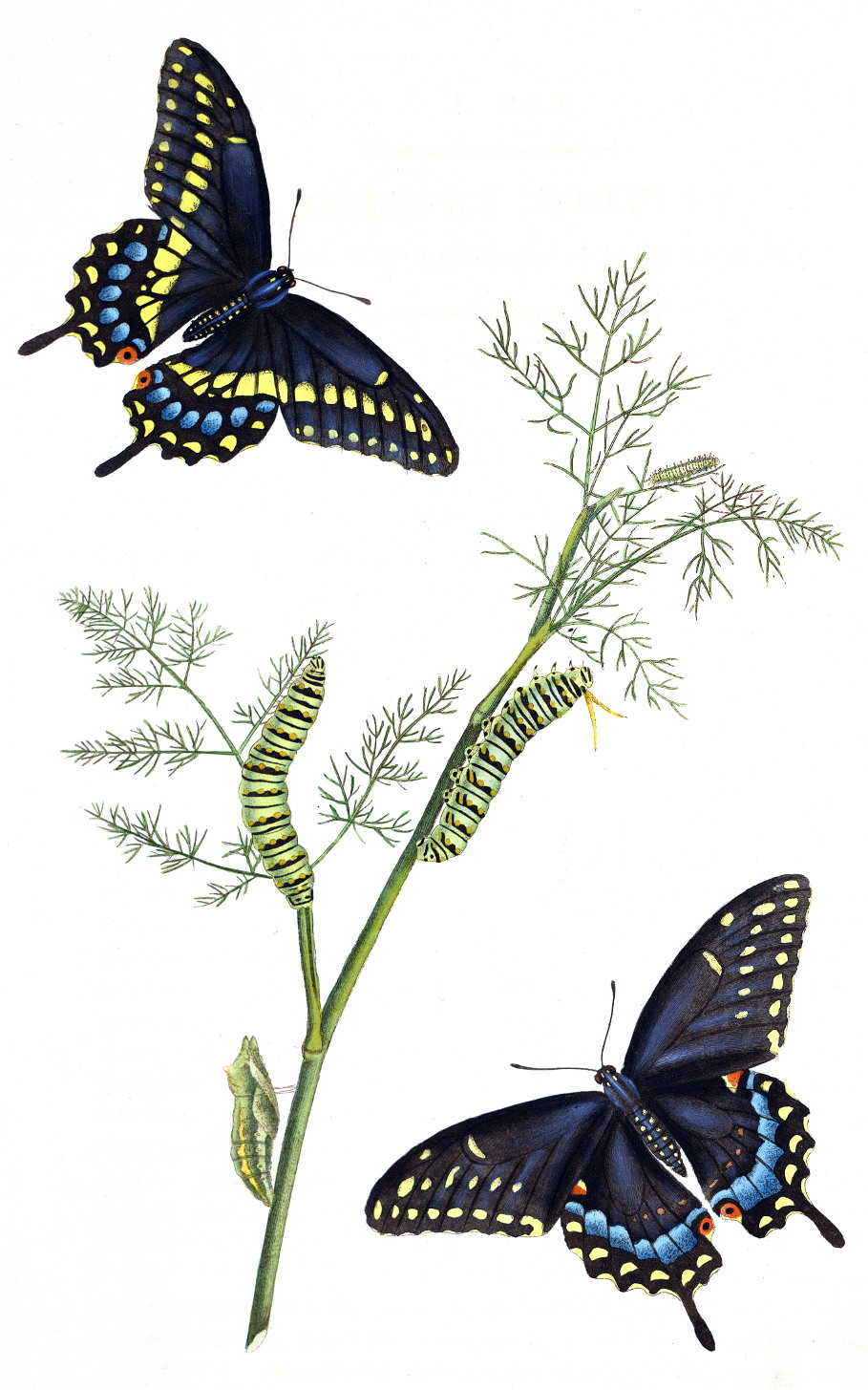 Black Swallowtail , Papilio polyxenes, on hostplant, (Anethum faniculum?), hand-colored engraving